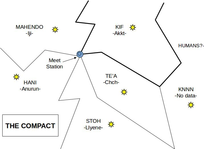 Map of The Compact, the commercial alien alliance in the science-fiction novels of Pyanfar Chanur by CJ Cherryh